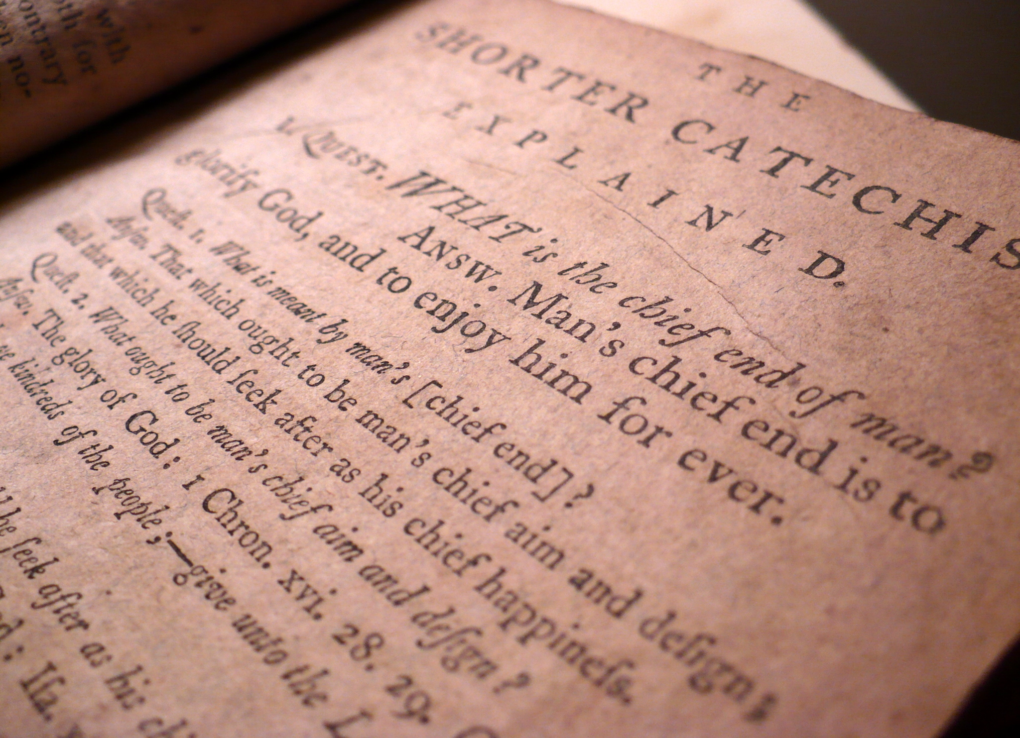 The first page from the 9th edition of the Westminster Shorter Catechism (1785).